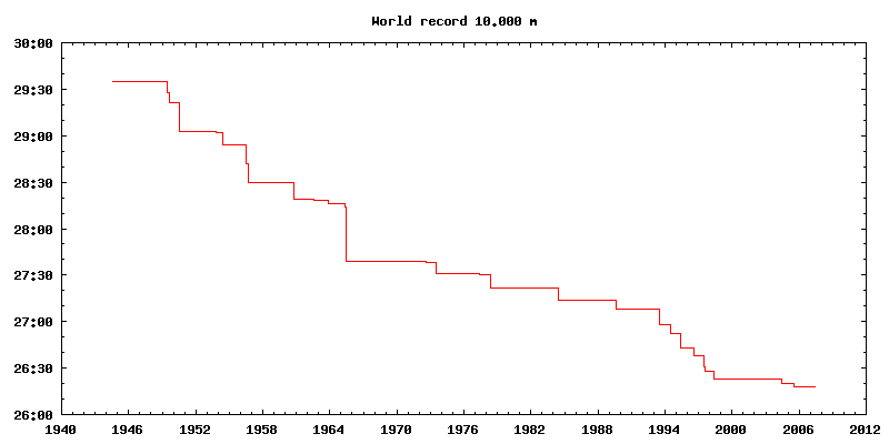 Course of the world record time in the 10,000 metres